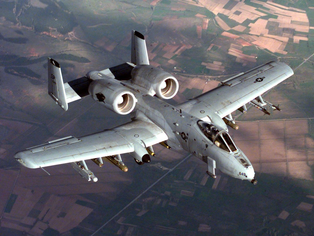 A U.S. Air Force A-10A Warthog, from the 52nd Fighter Wing, 81st Fighter Squadron, Spangdhalem Air Base, Germany, in flight during a NATO Operation Allied Force combat mission, Apr. 22, 1999. The A-10 "Tank Killer" munitions include 250 pound iron bombs, ALQ-131 electronic jamming pod, 2.75 inch Zuni rockets, AGM-65D Maverick missiles, and a 30mm cannon mounted in the nose. The A-10As, deployed to Aviano Air Base, Italy, are specially designed for close air support of ground forces.